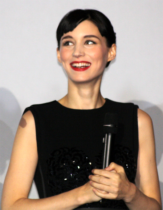 Rooney Mara at the Paris premiere of her film The Girl with the Dragon Tattoo